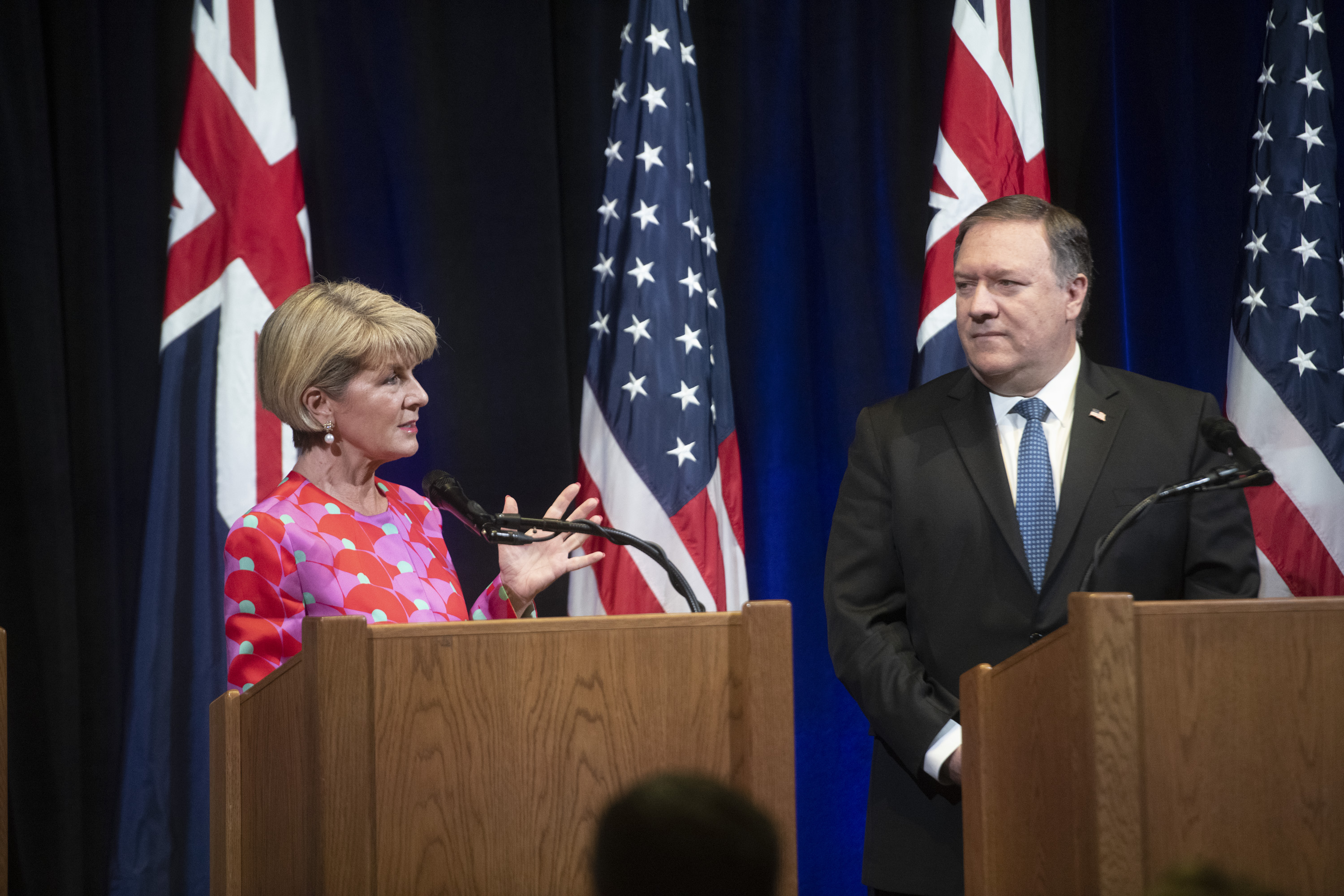 Defense Secretary James N. Mattis, Secretary of State Michael R. Pompeo, Australian Foreign Affairs Minister Julie Bishop and Australian Defense Minister Marise Payne at the Australia-U.S. Ministerial Consultations, known as AUSMIN, at Stanford University’s Hoover Institution in Palo Alto, Calif., July 24, 2018. (DOD photo by Navy Petty Officer 1st Class Dominique A. Pineiro)